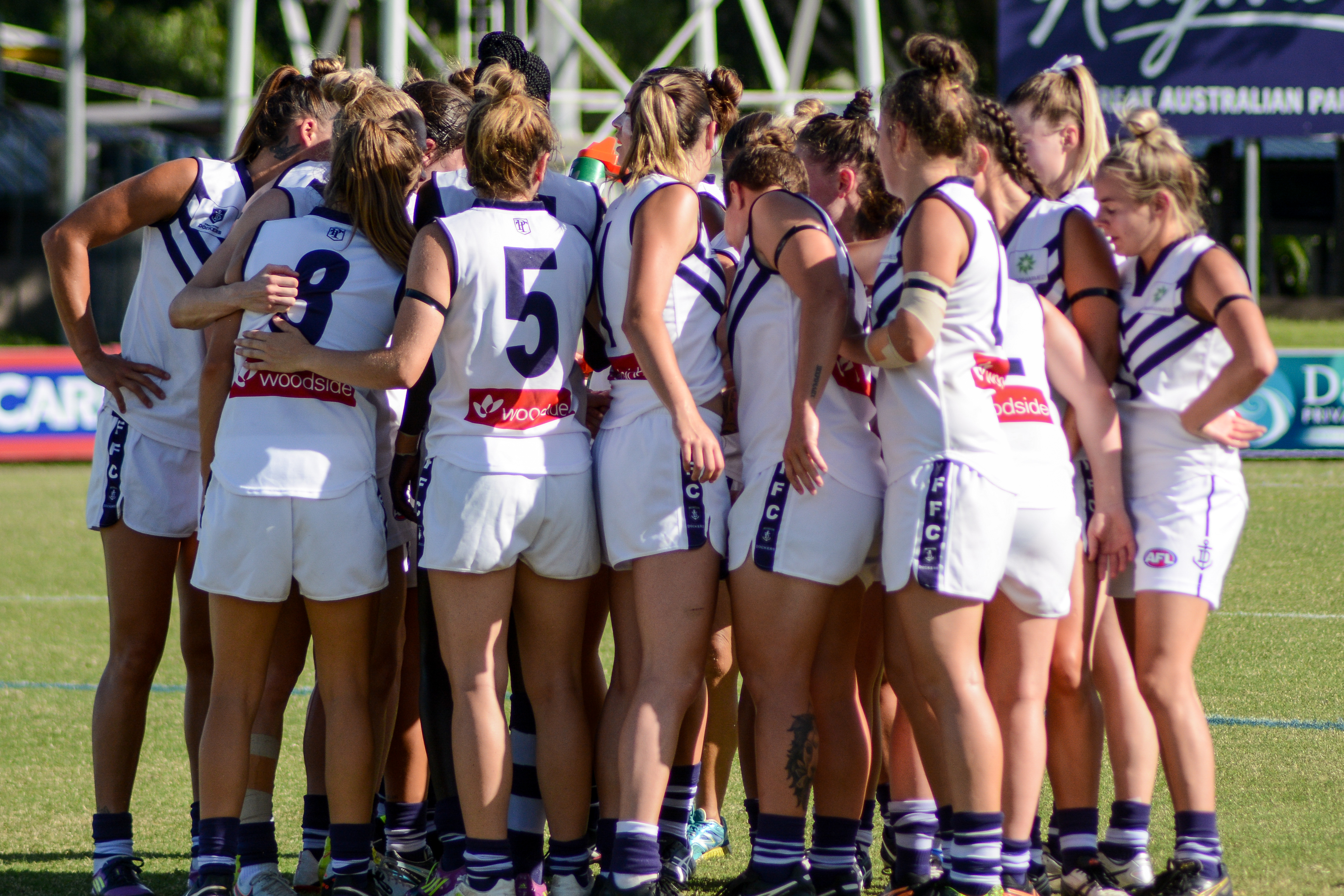 Fremantle AFL Women's team huddle before a practice match against Adelaide in January 2017